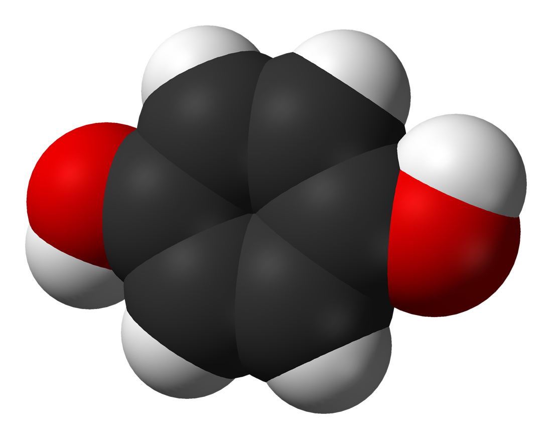 Space-filling model of the trans rotamer of hydroquinone, C6H6O2. Structural information from K. Maartmann-Moe (December 1966). "The crystal structure of γ-hydroquinone". Acta Cryst. 21: 979-982. Image generated in Accelrys DS Visualizer.